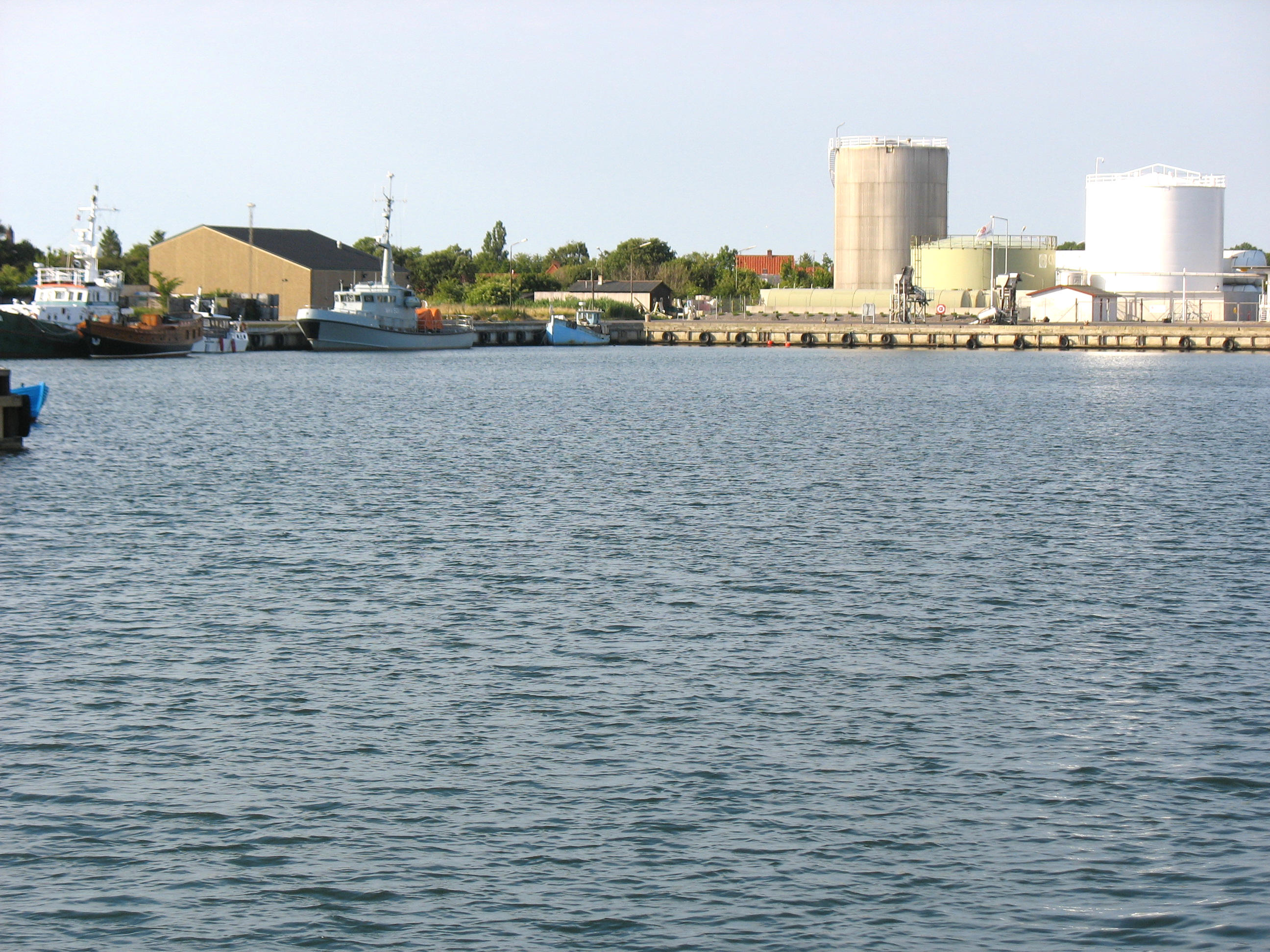 The habour in the small town "Rødbyhavn" located on the island Lolland in east Denmark.